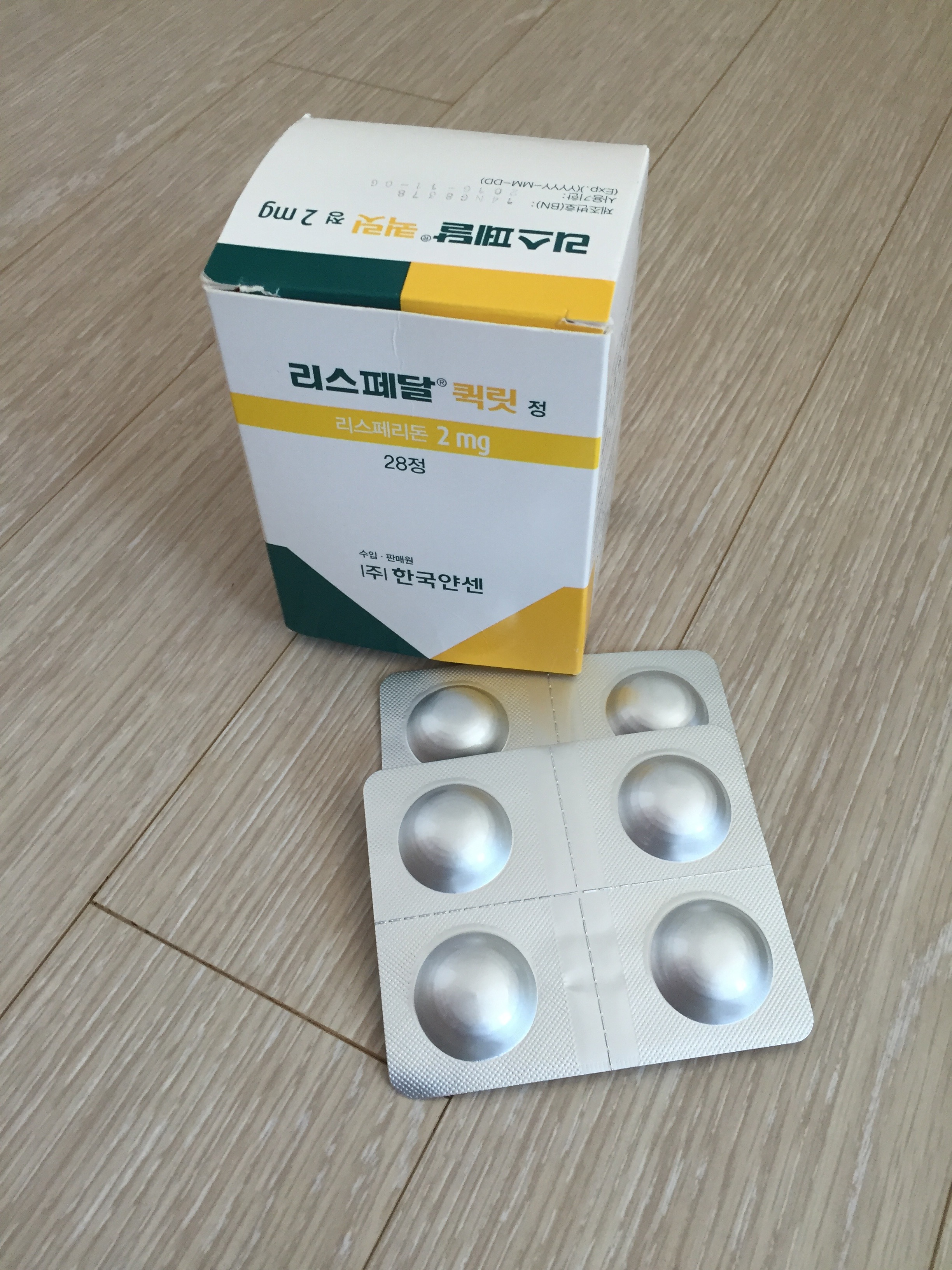 Risperidon Quicklet 2mg. smell like mint